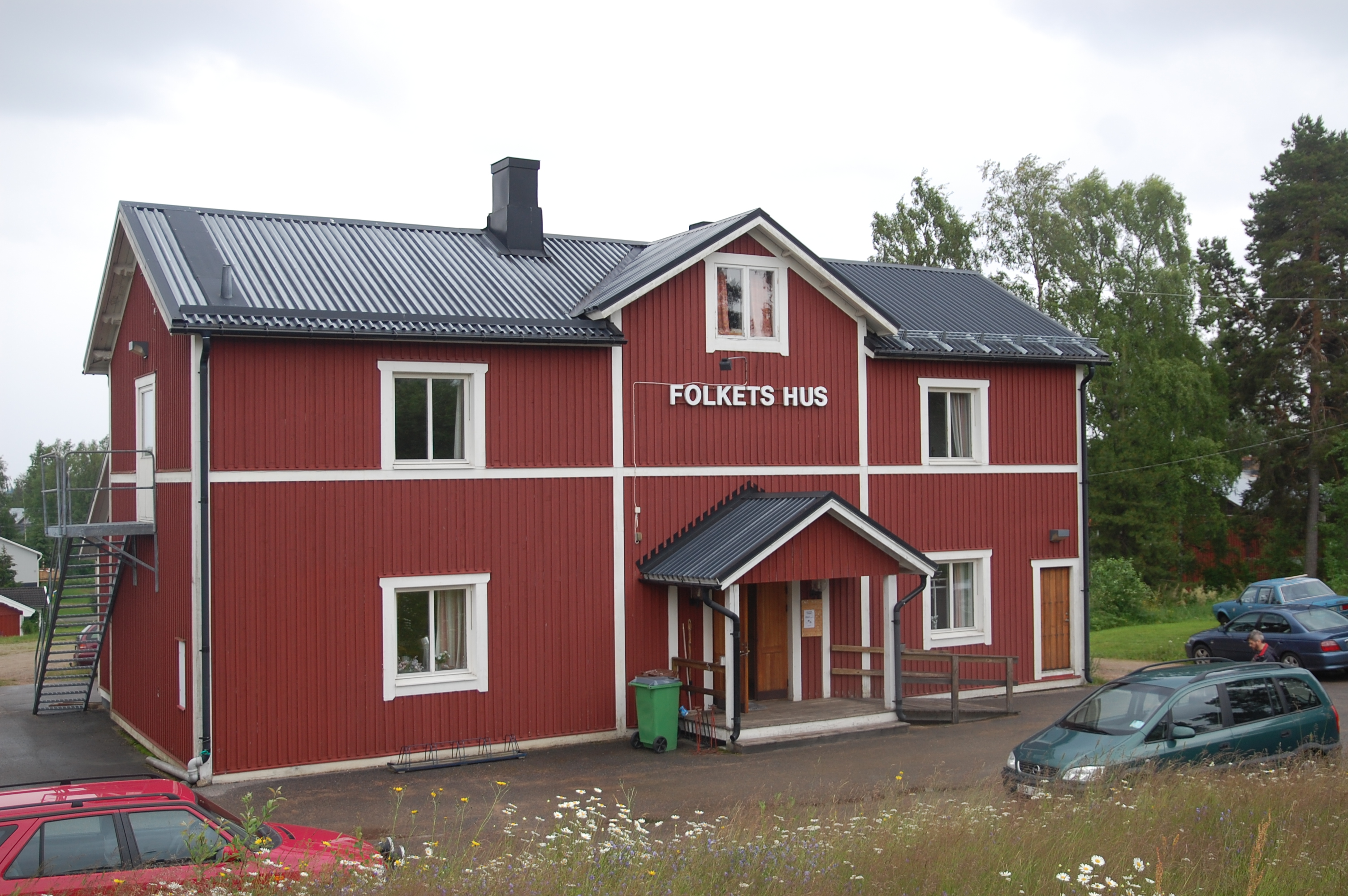 Båtskärsnäs2